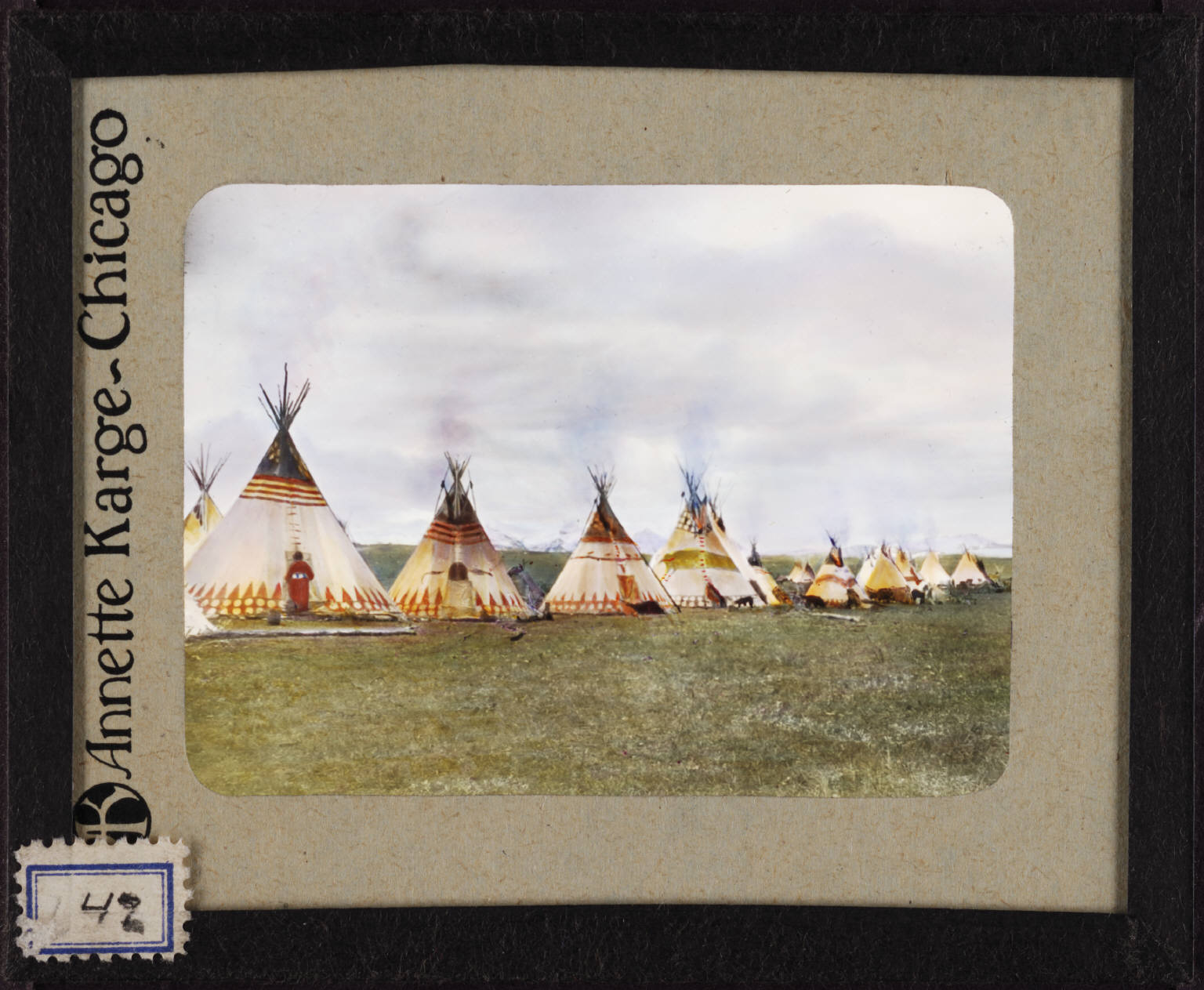 Author/Creator: McClintock, Walter, 1870-1949. Karge, Annette. Date: undated Part of: Walter McClintock papers, 1874-1946. Physical Description: 1 lantern slide hand col. 8 x 10 cm. Folder or box number: Lantern slides box 1 Subjects: Indians of North America. Siksika Indians. Montana. Genre/Form: Lantern slides Cite as: Yale Collection of Western Americana, Beinecke Rare Book and Manuscript Library Repository: Beinecke Rare Book and Manuscript Library, Yale University Bibliographic Record Number: 2008426 Call Number: WA MSS S-1175 View our Record: Permalink